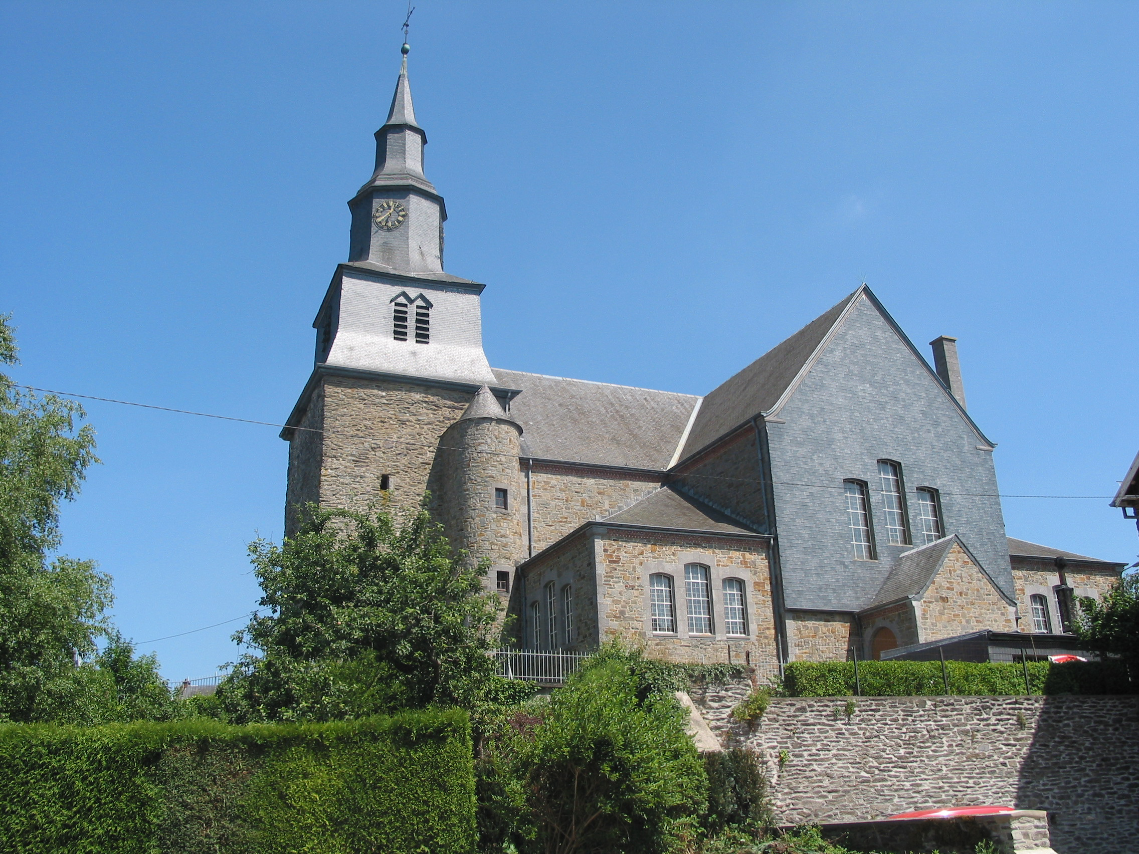 Gedinne (Belgium), the Our Lady of Nativity Church (Romanesque tower - XIIth century.